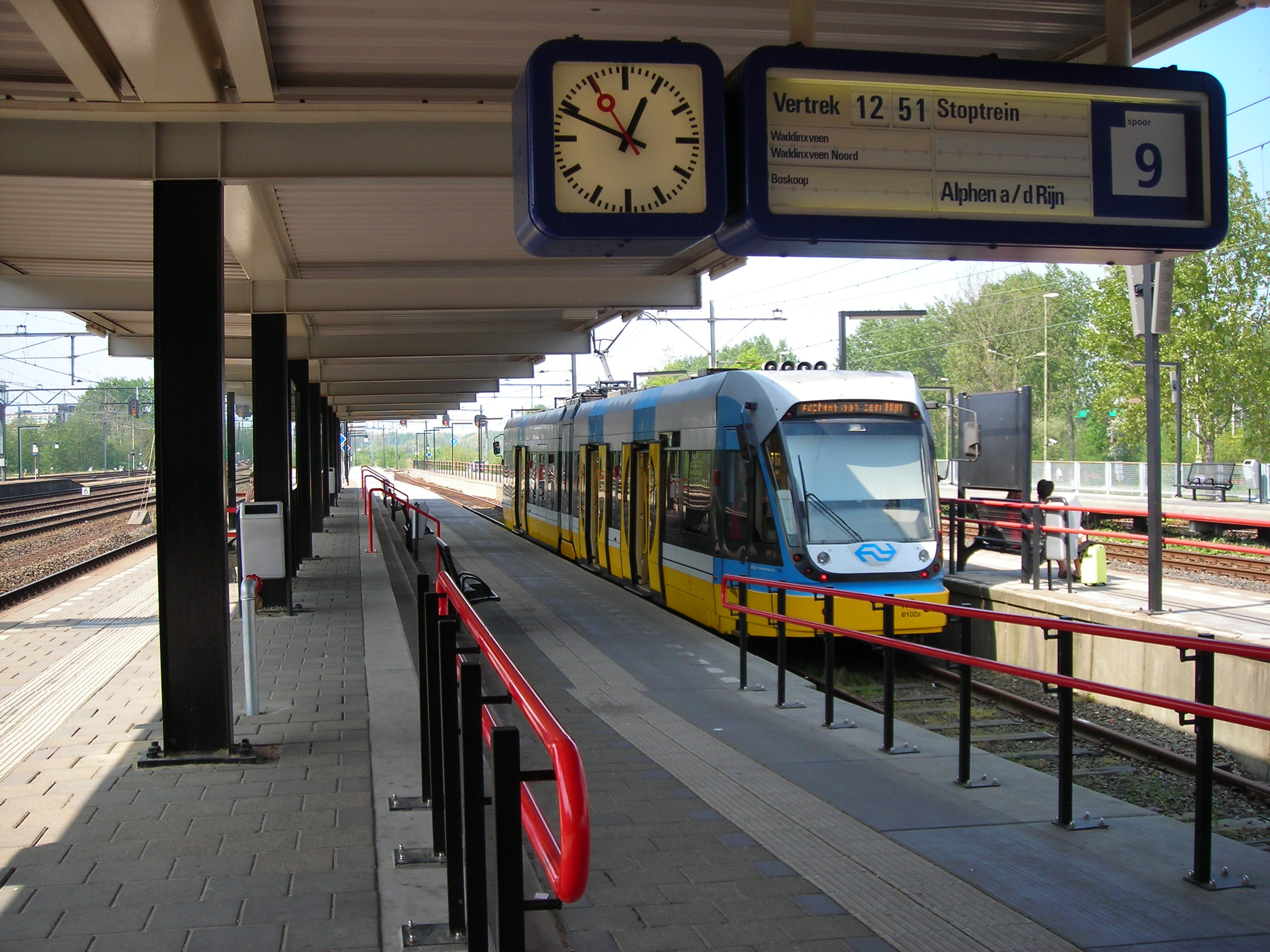 A lightrail train on the 9500 service Gouda-Alphen